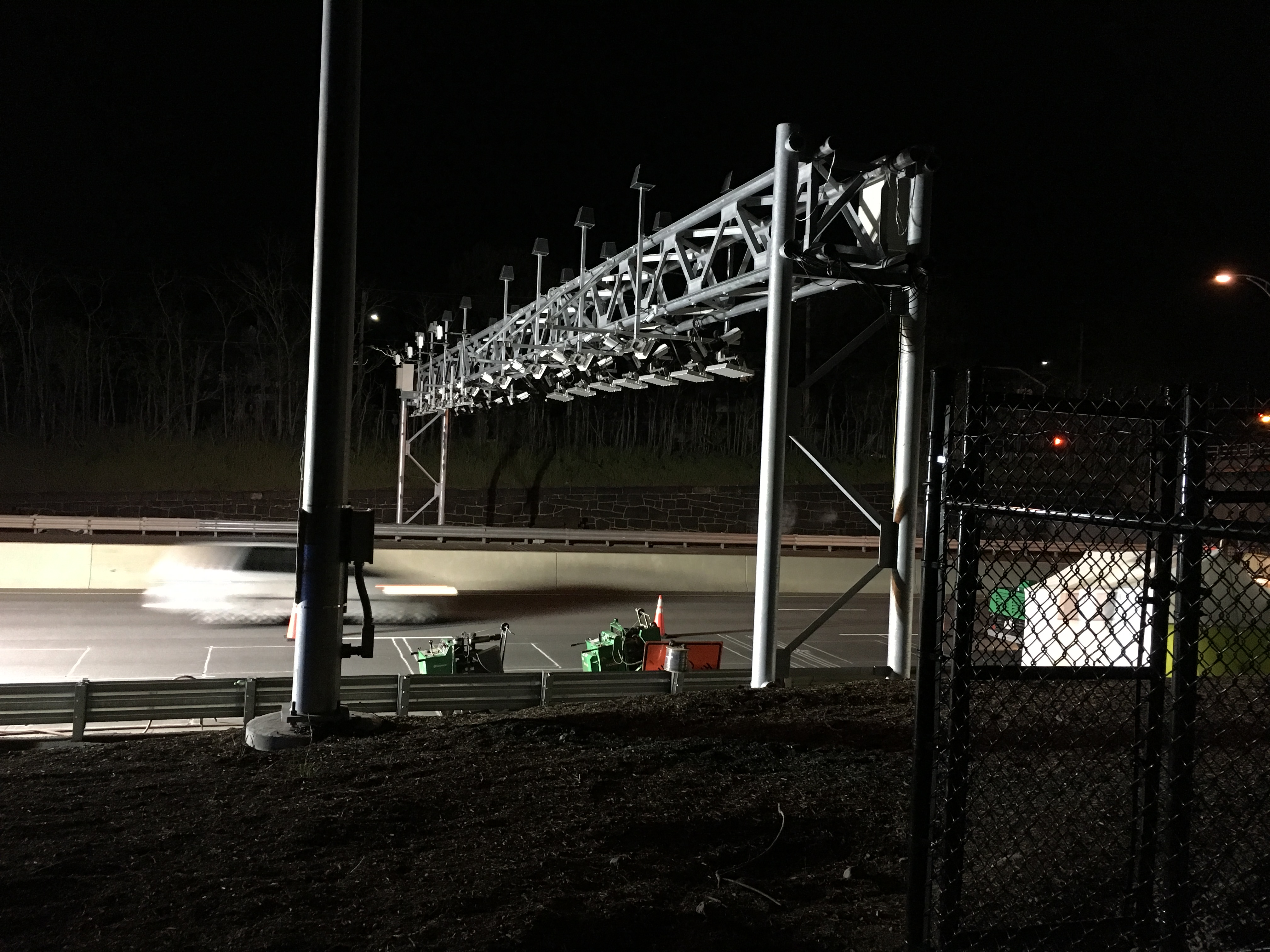 Electronic toll collection gantry over the Massachusetts Turnpike in Newton MA.